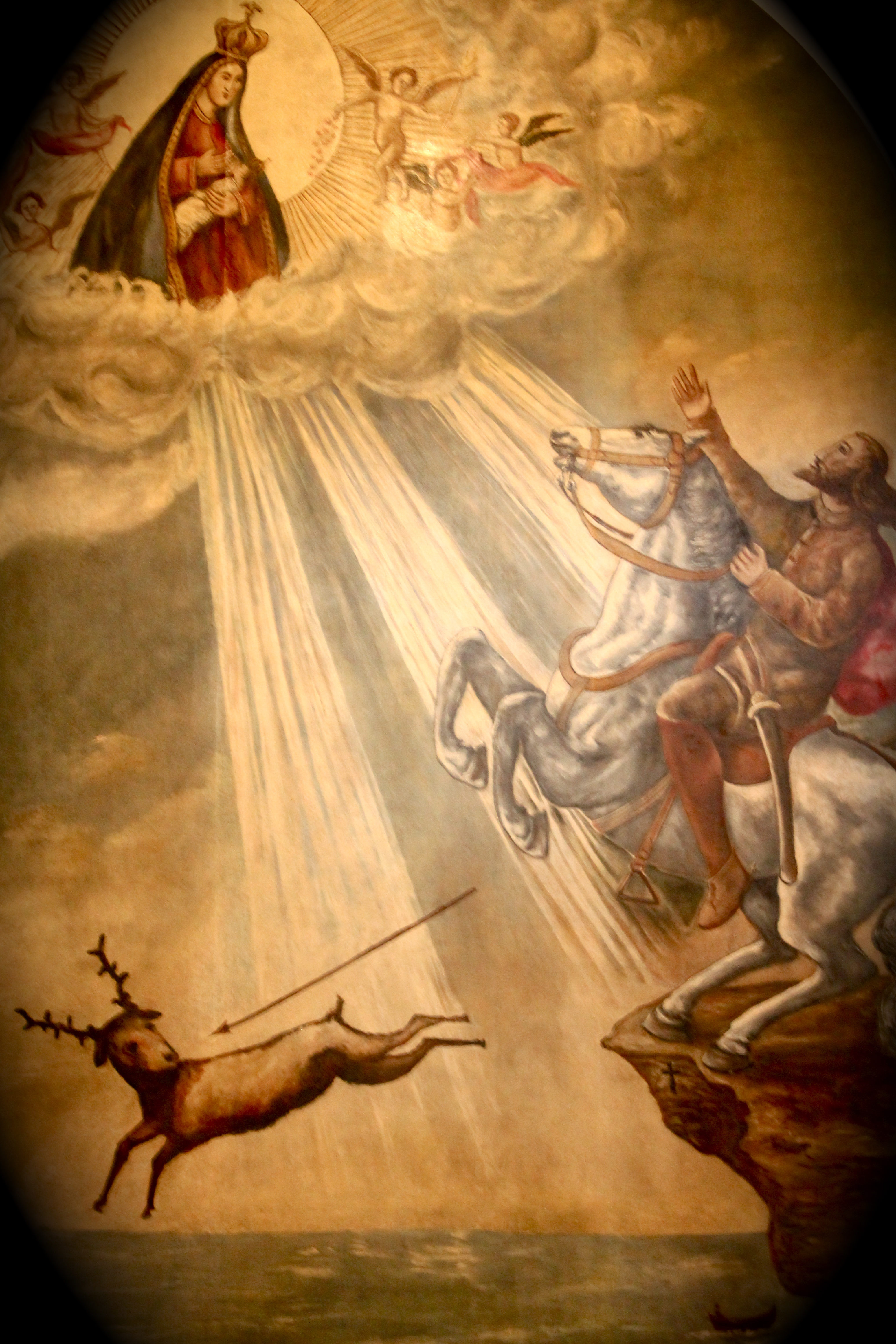 Portugal The first church in O Sítio, was built over the grotto to commemorate a miraculous intervention (1182) by the Virgin Mary in saving the life of the 12th century Portuguese knight Dom Fuas Roupinho, possibly a templar, while he was hunting deer one foggy early morning. In memory of the miracle he had a chapel (Capela da Memória) built over the small grotto, where the miraculous statue had been left (c.715) by king Roderic after the monk's death. Beside the chapel, on a protuberant rock 110 meters above the Atlantic, one can still see the mark made in the rock by one of the hooves of Dom Fuas horse.